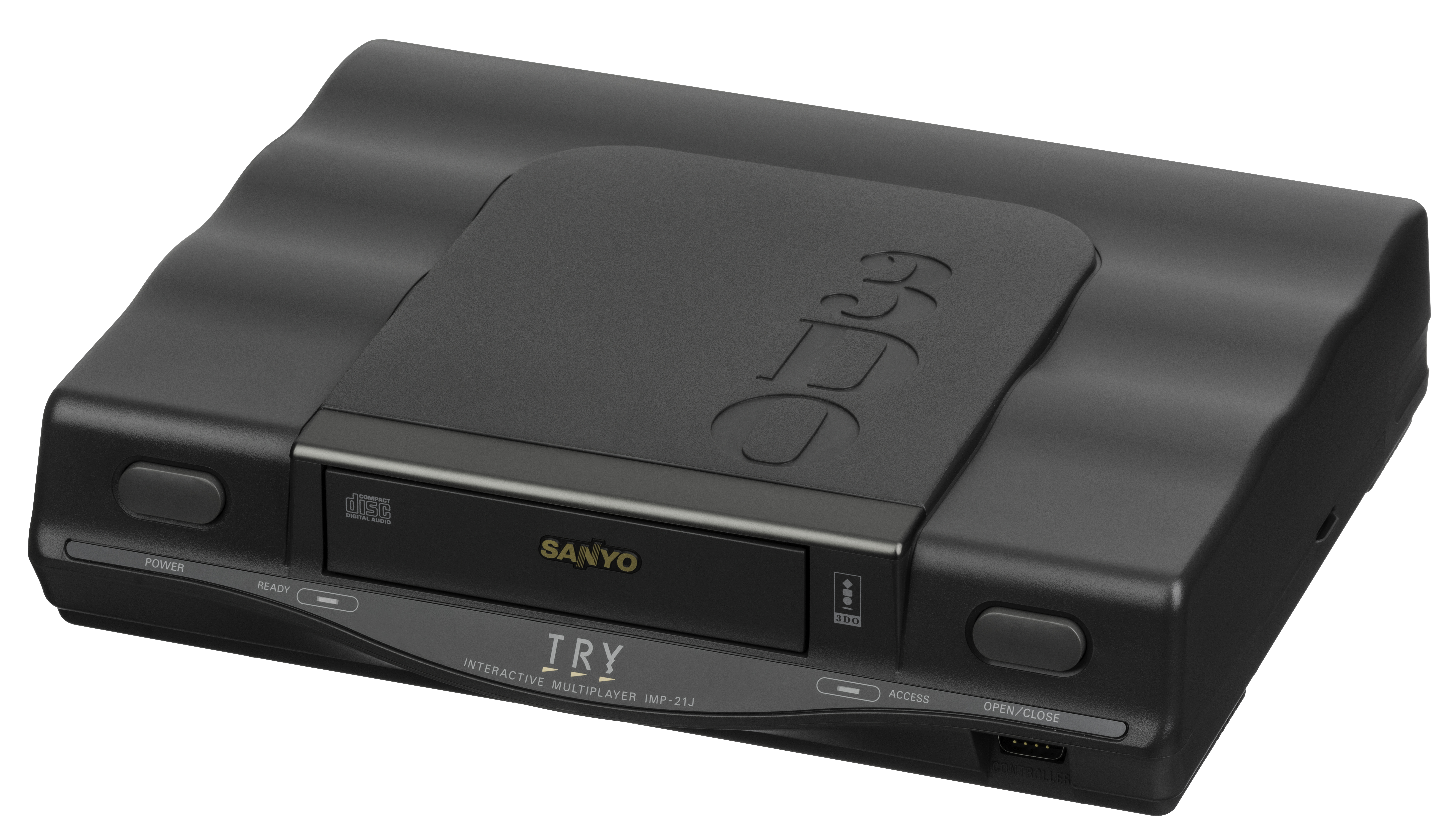 The 3DO TRY! console, a model variant of the 3DO made by Sanyo that was only released in Japan.